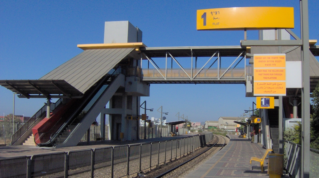 Haifa Lev HaMifratz railway station - view from inside.